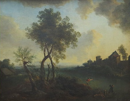 Landcape with river, Christian Hilfgott Brand, Ca' d'Oro, Venezia